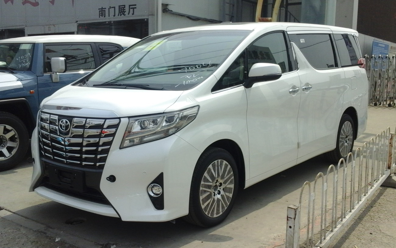 Toyota Alphard AH30 photographed in Beijing, China.